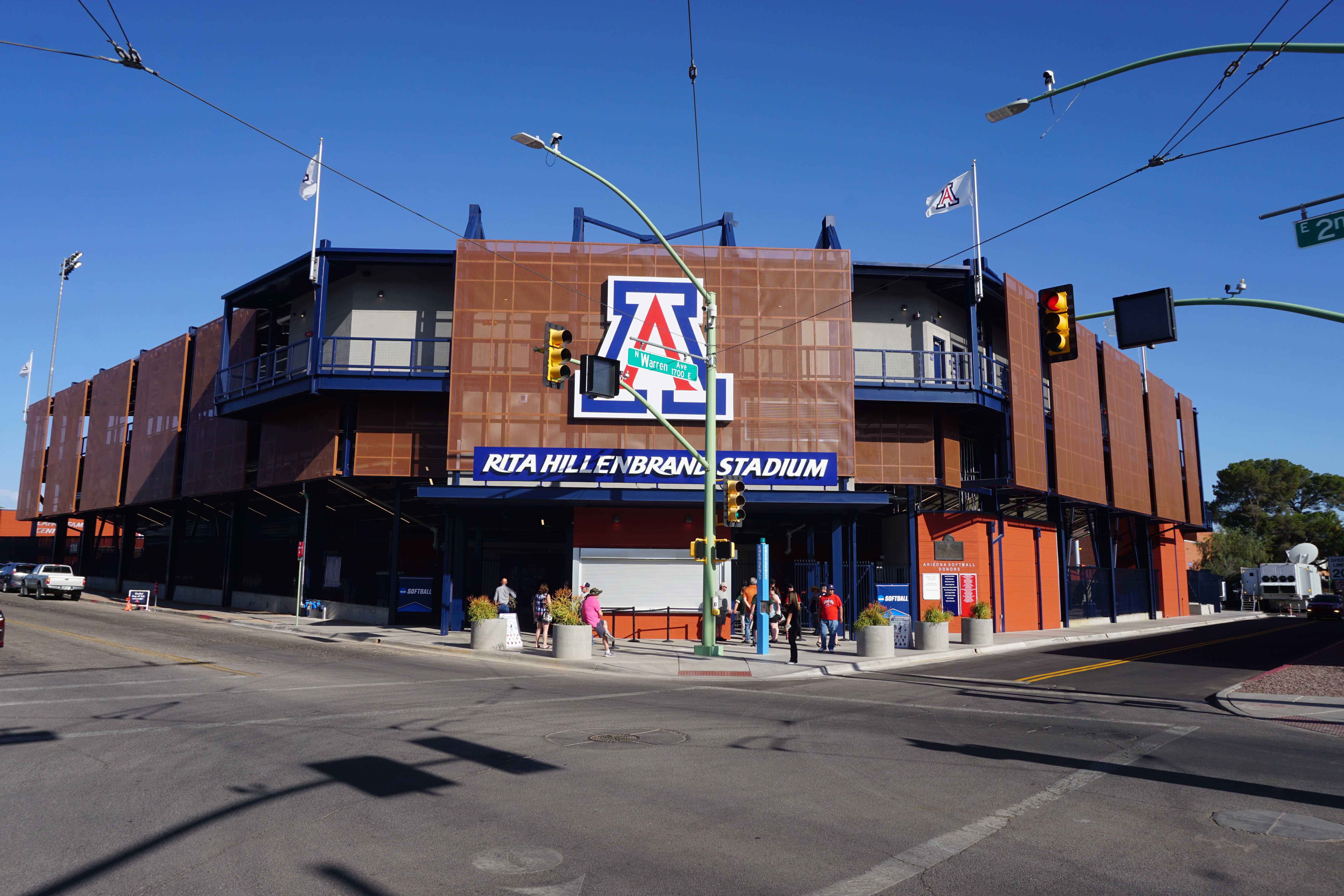 Rita Hillenbrand Stadium on the campus of the University of Arizona in Tucson, Arizona (United States).